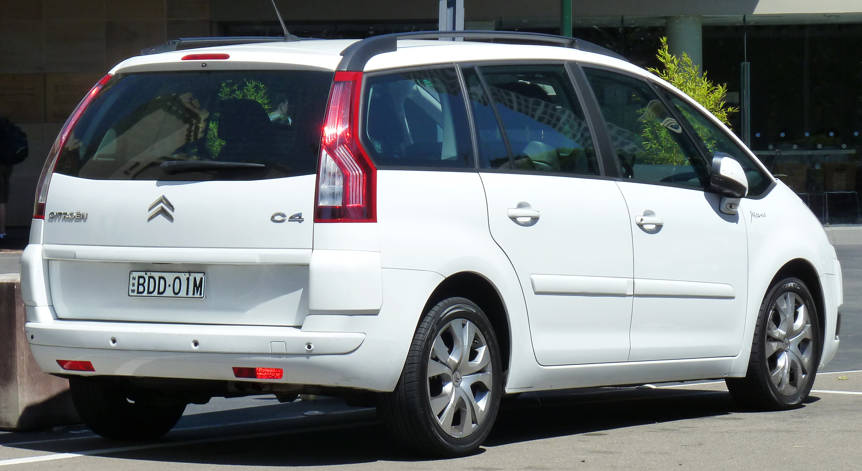 2007–2010 Citroën C4 Picasso wagon. Photographed on Conservatorium Road, Sydney, New South Wales, Australia.